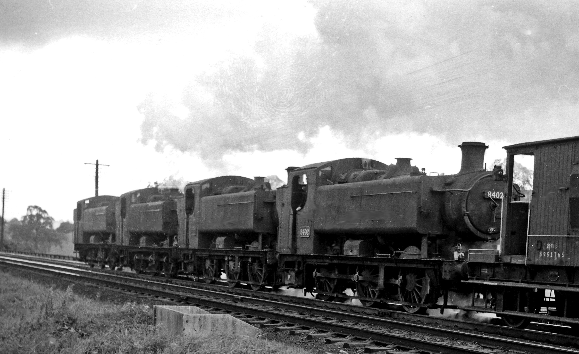 Four '9400' class 0-6-0 Pannier tanks are needed to bank an Up oil train on the Lickey Bank. These were at the back of the train depicted in SO9871 : Heavy oil train ascending Lickey Bank and noise was tremendous -and I recorded it. They are '9400' class Nos. 8402, 9430, 8400 and 8401.